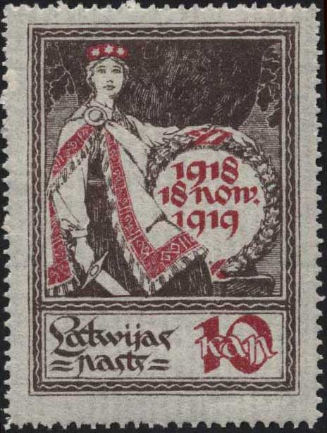 Latvia SC60 Laid paper